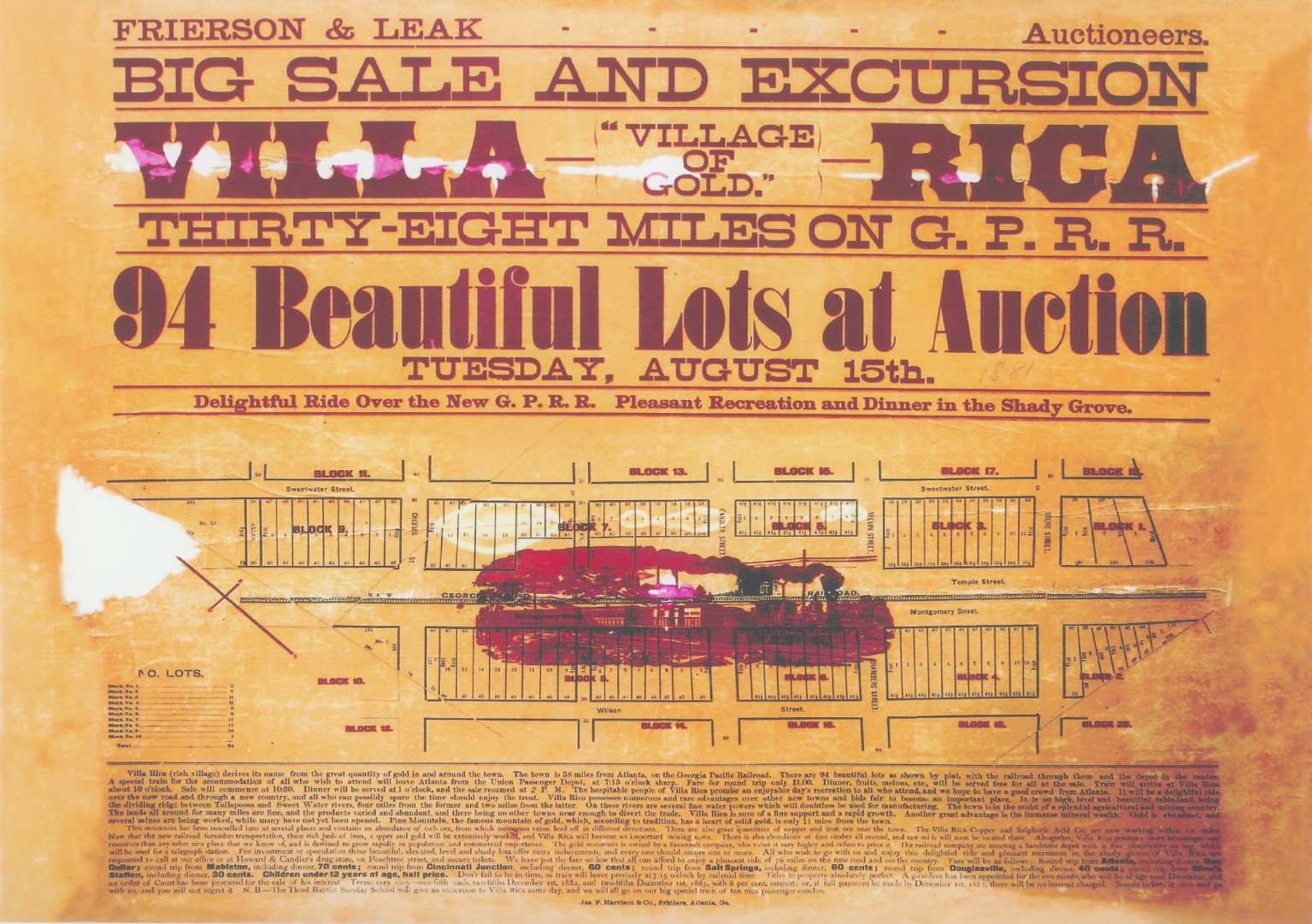 This is a handbill originally distributed to announce a land sale in Villa Rica, Georgia. The orginal scan is considerably larger.